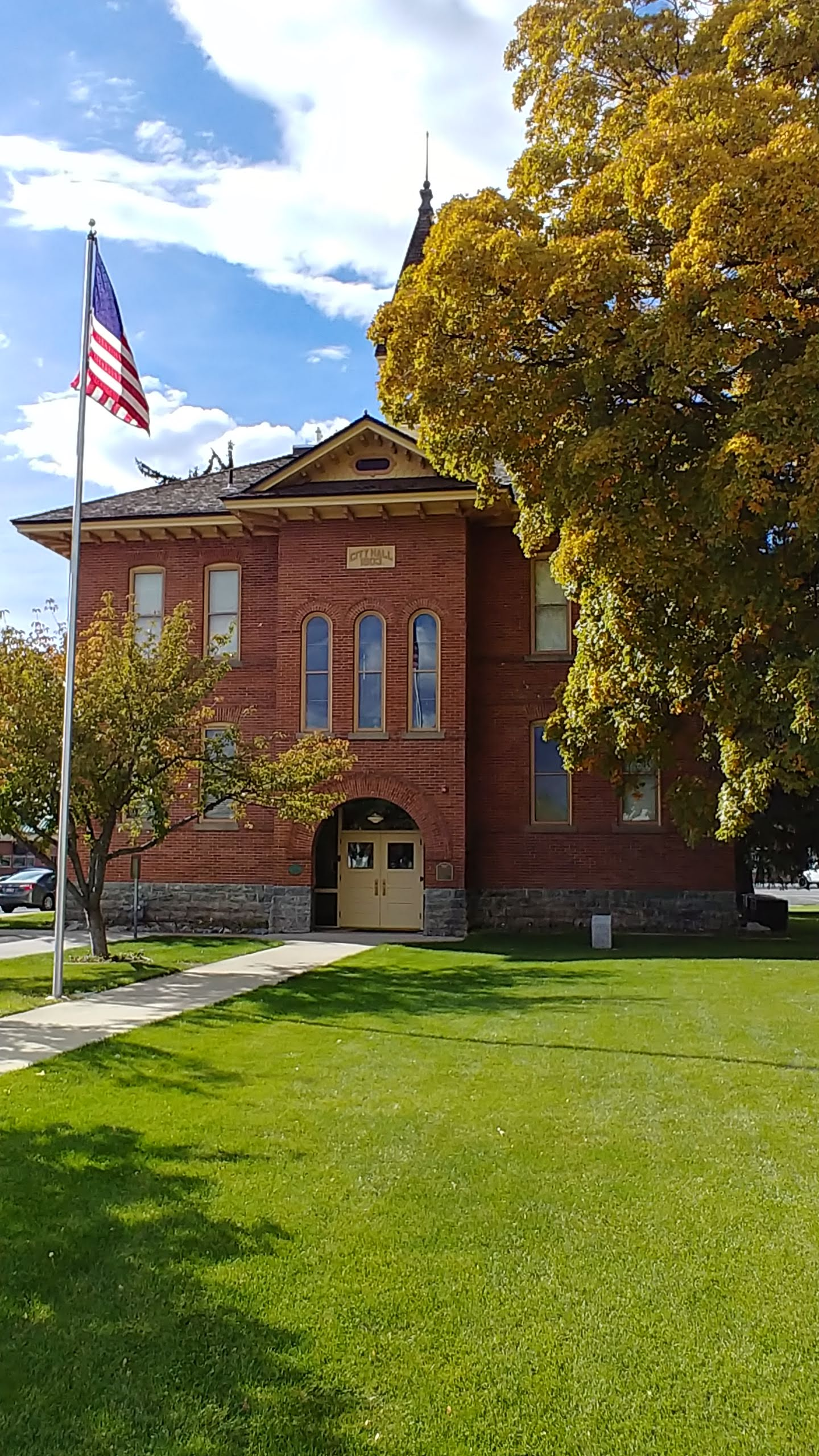 American Fork City Hall - front